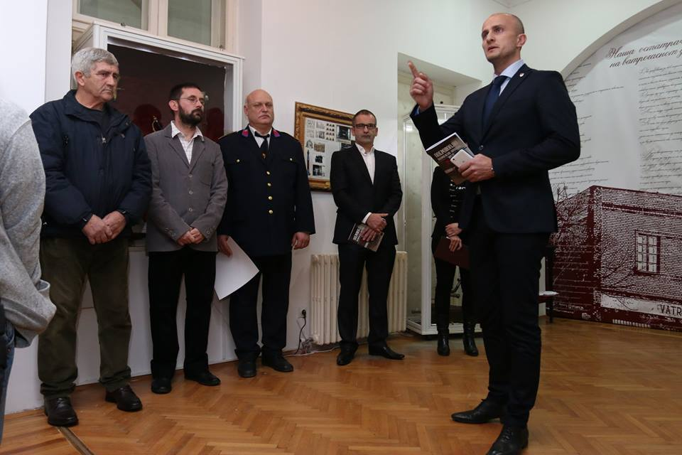 Celebration at the City Museum in Vrbas on the occasion of marking 111 years of DVD Vrbas, December 24, 2015